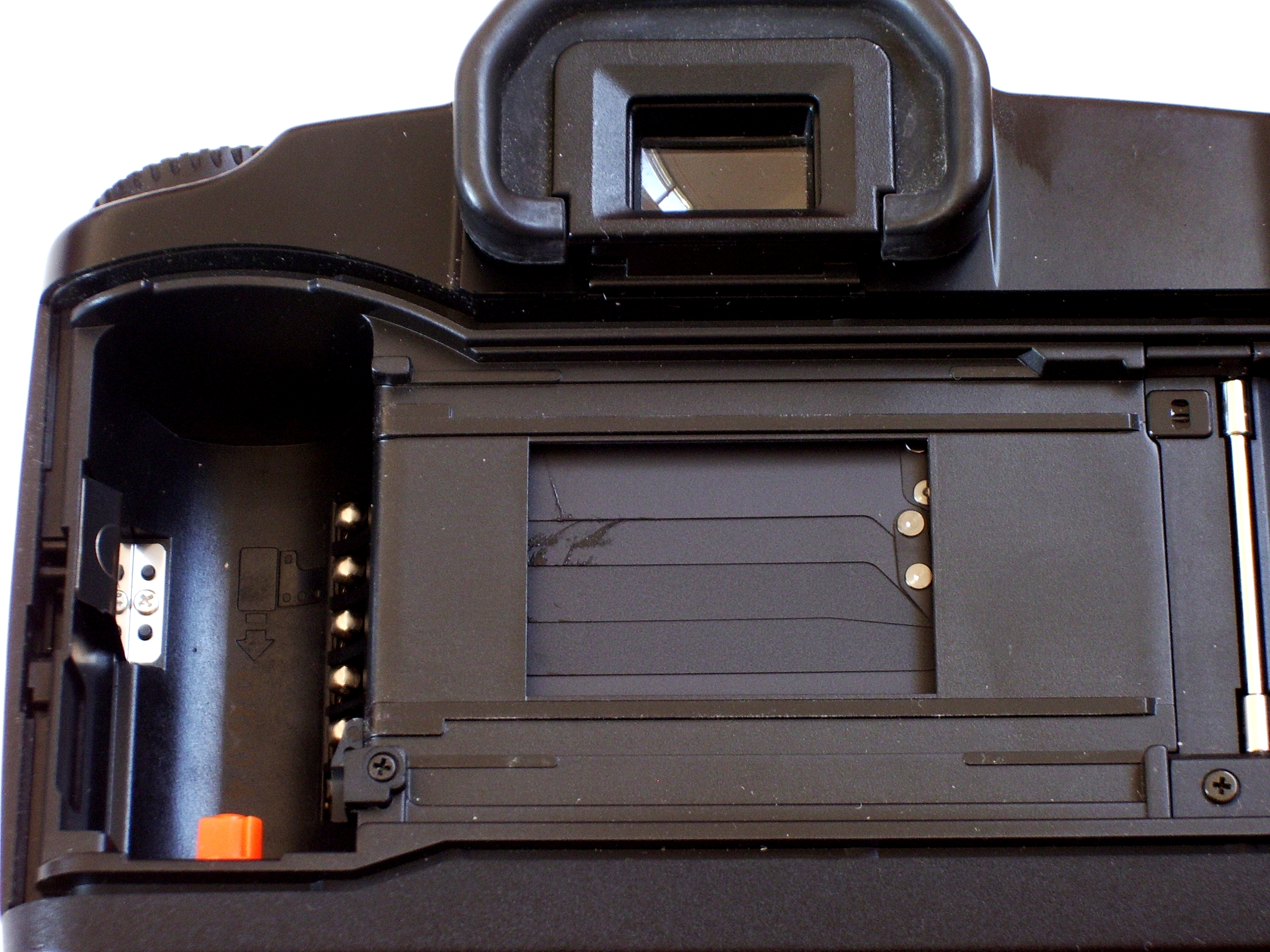 Canon EOS 100 with the film cover open, showing DXcode reading terminals and shutter. Note the staining on the left of the shutter, coming from disintegration of an internal seal.